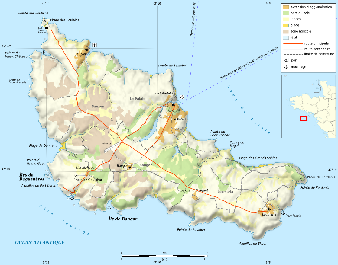 Administrative map in French of Belle Île